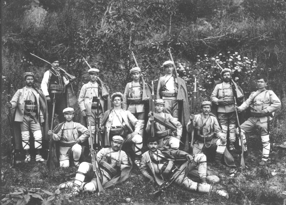 Cheta of IMARO voivoda D. Dimitrov